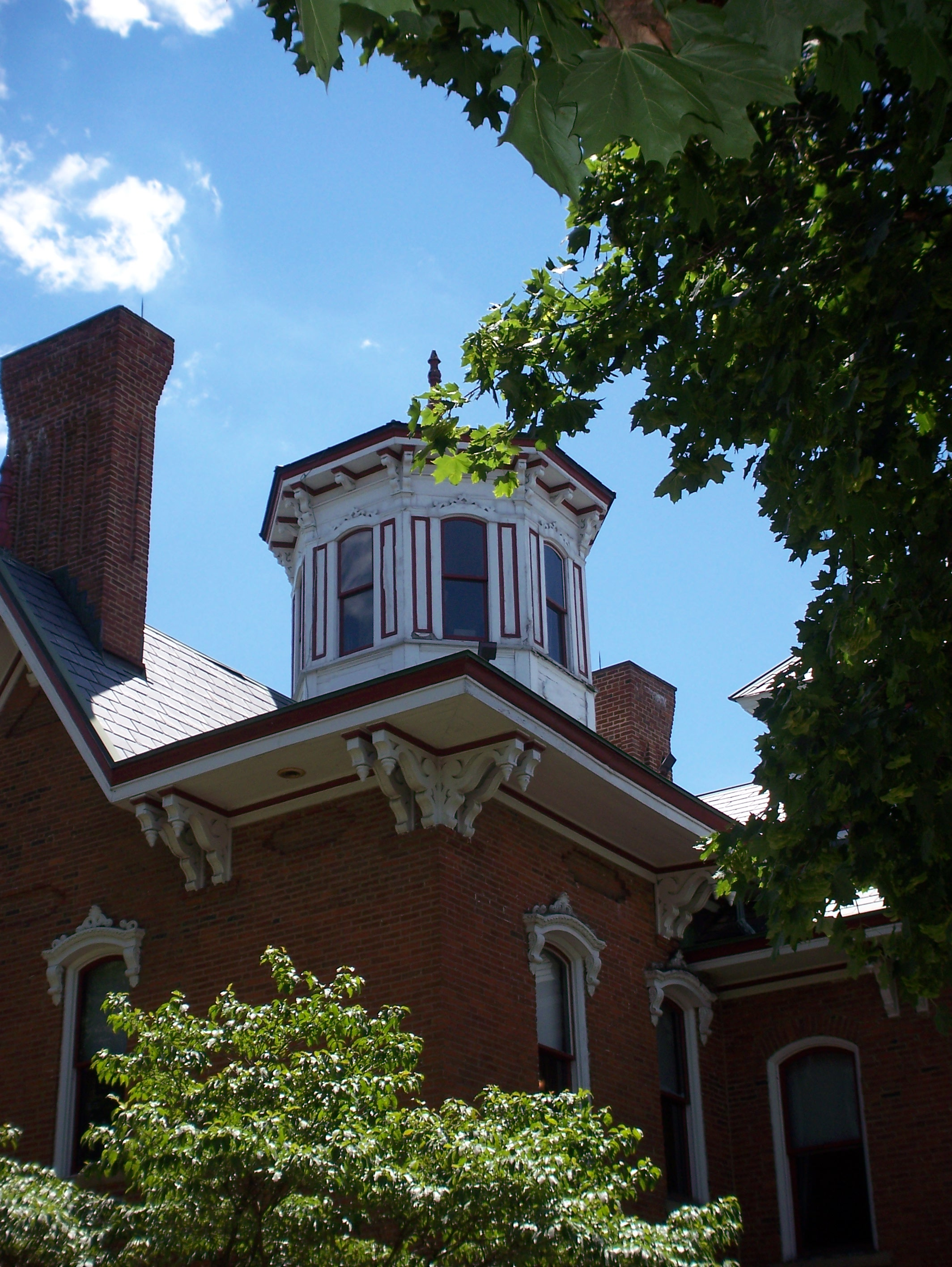 Cupolo of Breezedale Hall at Indiana University of Pennsylvania (IUP) in Indiana, Pennsylvania